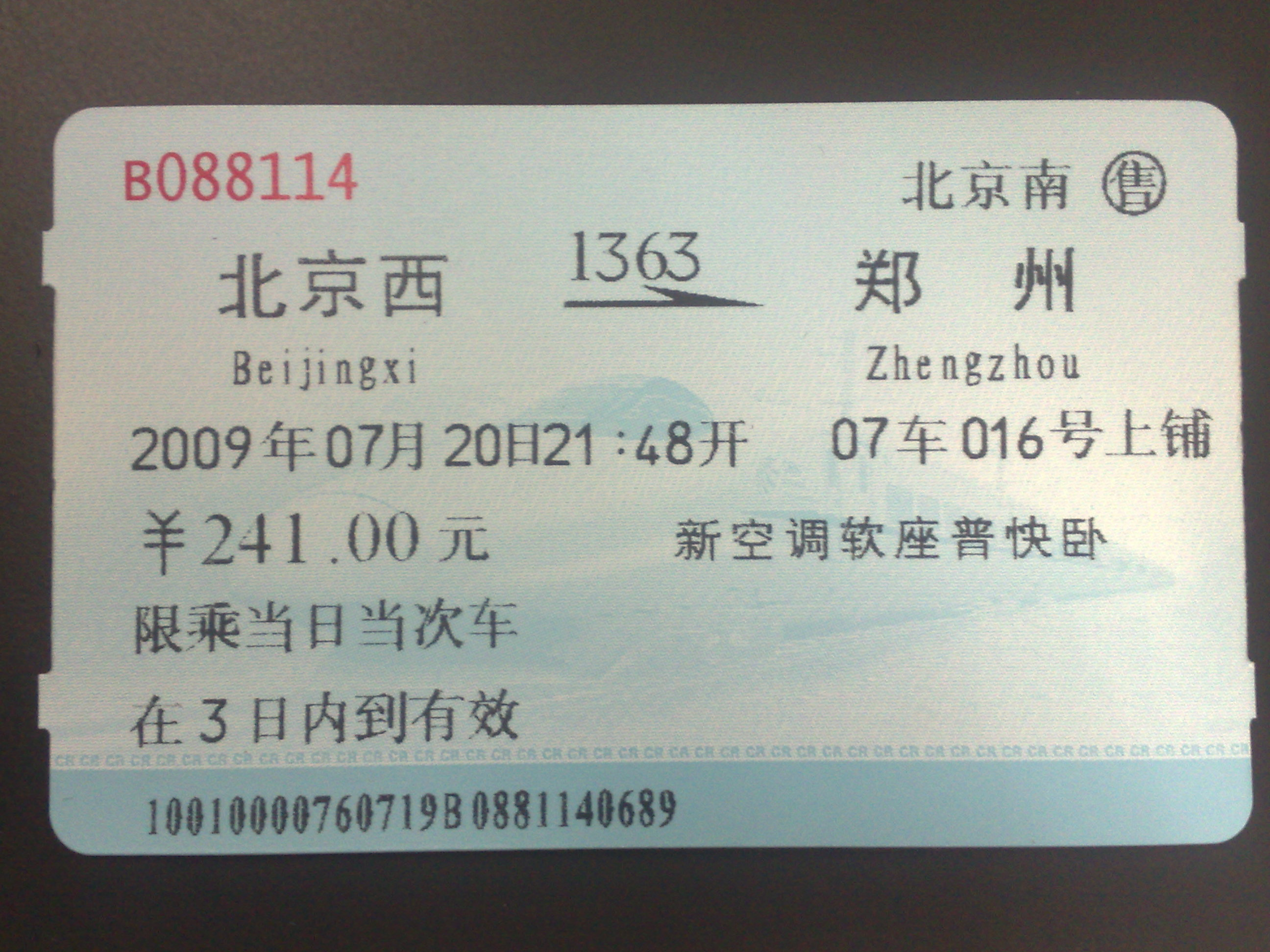 The real ticket in the example.